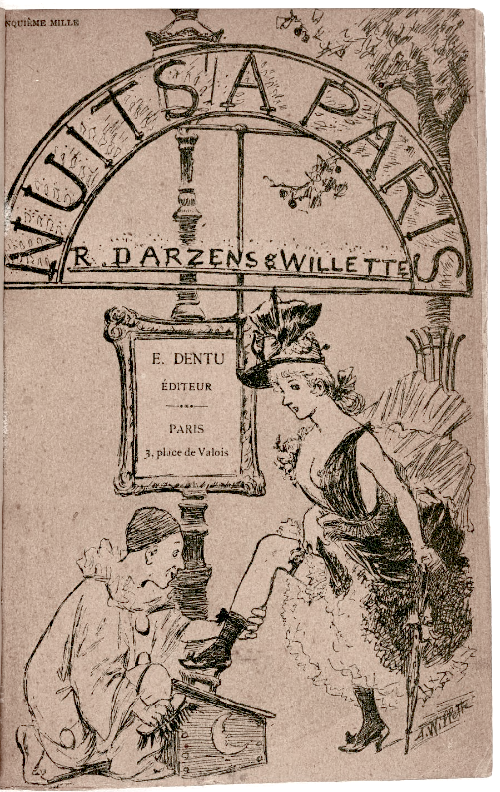 Rodolphe Darzens, Nuits à Paris, book cover by Adolphe Willette, Paris: Dentu.